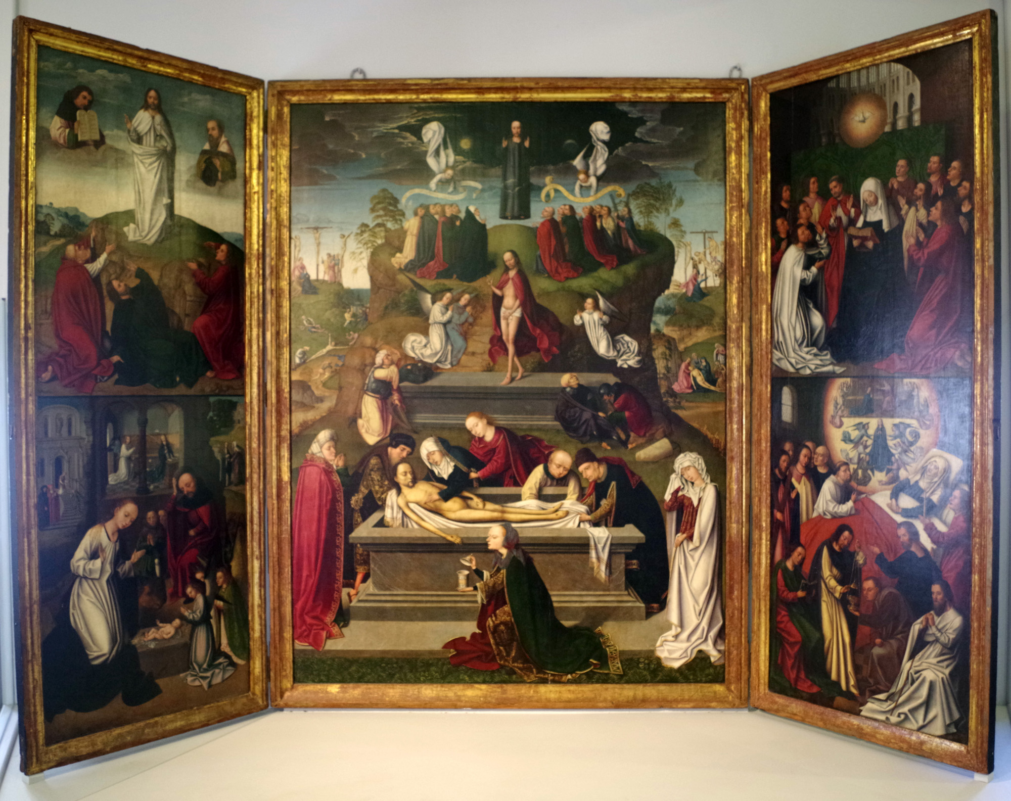 15th Century flemish triptych in Ávila Museum (Casa de los Deanes building) (Ávila, Spain).